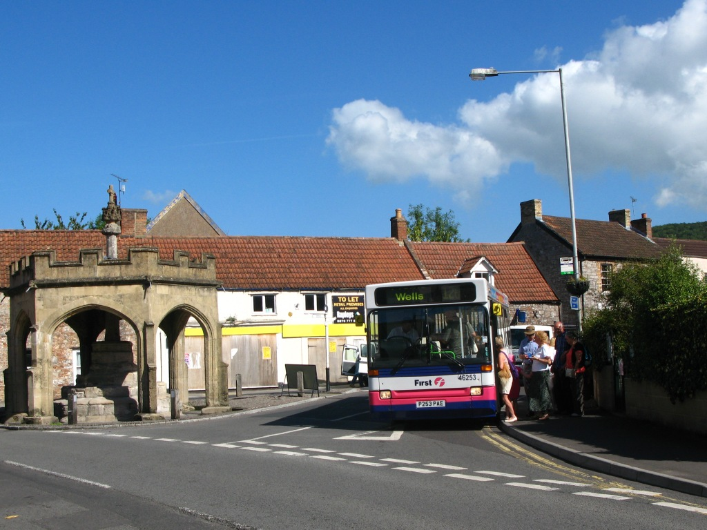 The Market Cross in Cheddar, Somerset, England, which is a scheduled ancient monument. First Somerset and Avon bus 46253 (P253 PAE) picks up passengers en route from Weston-super-Mare to Wells.